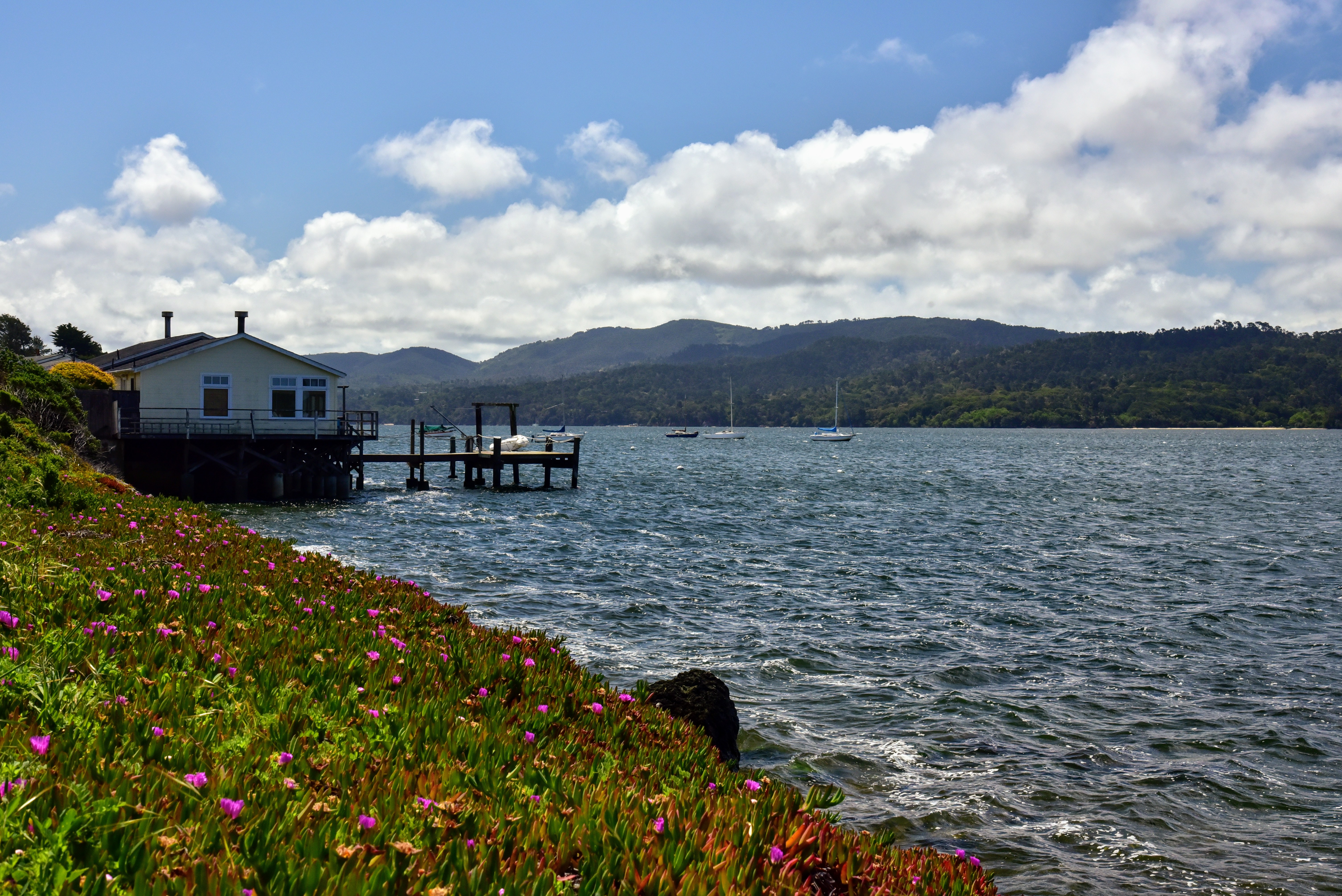 Tomales Bay, California seen from Highway 1.